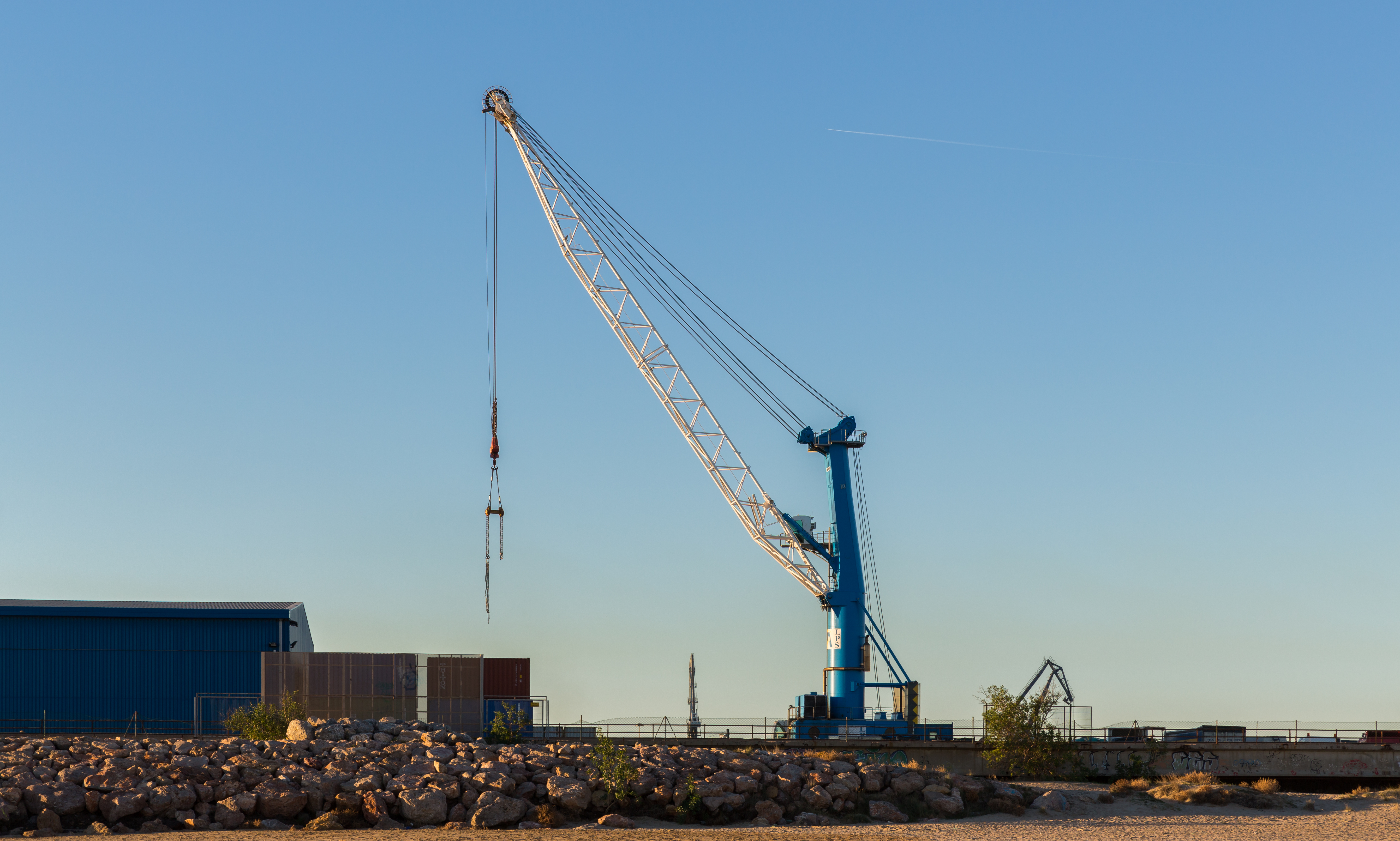 Crane in Port of Sagunto, España